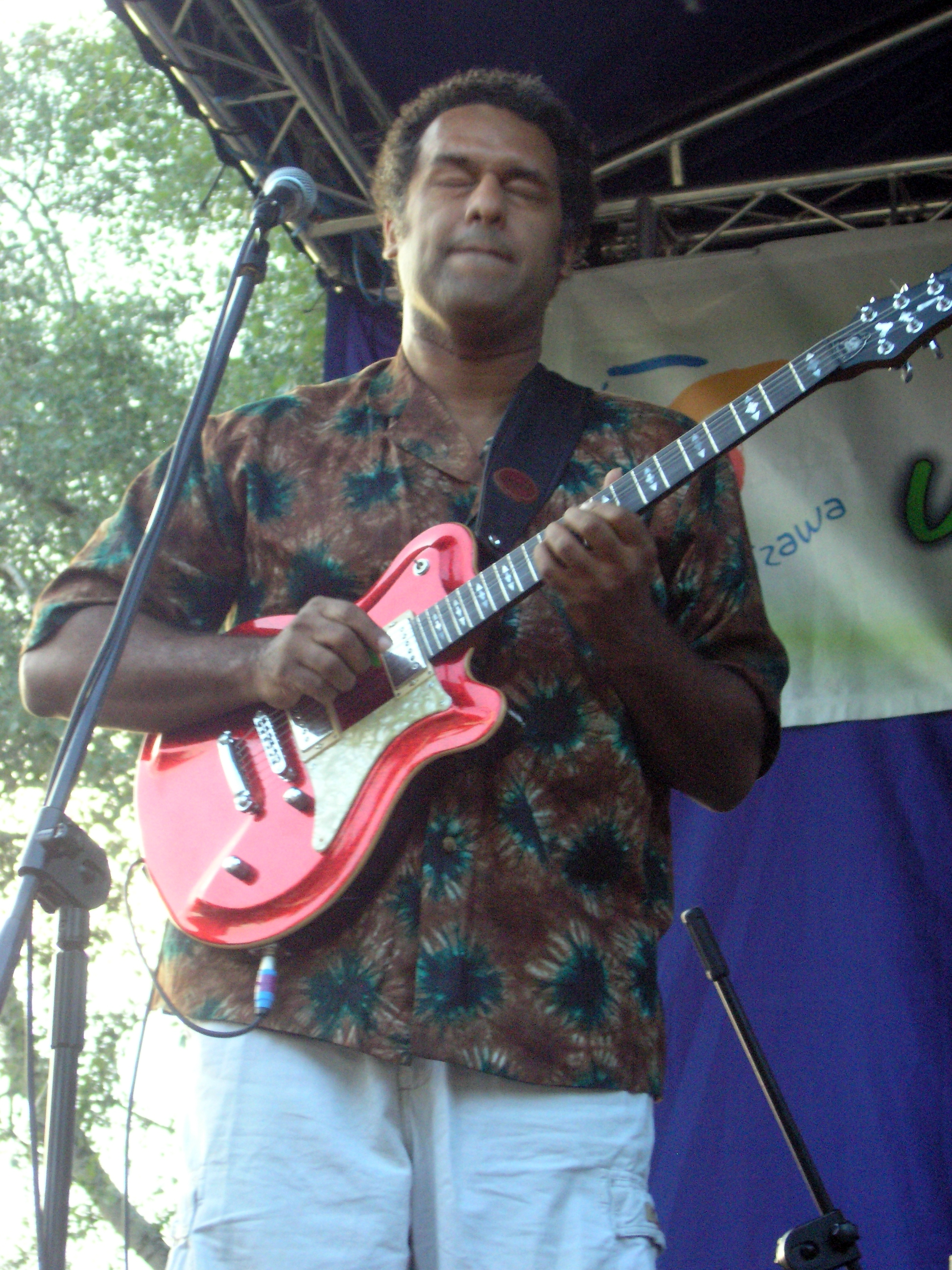 ] /Users/jean-paulbourelly/Pictures/jp acoustic photo/20060119_jean-paul bourelly_07.jpg